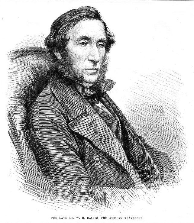 William Balfour Baikie (21 August 1824 – 30 November 1864)